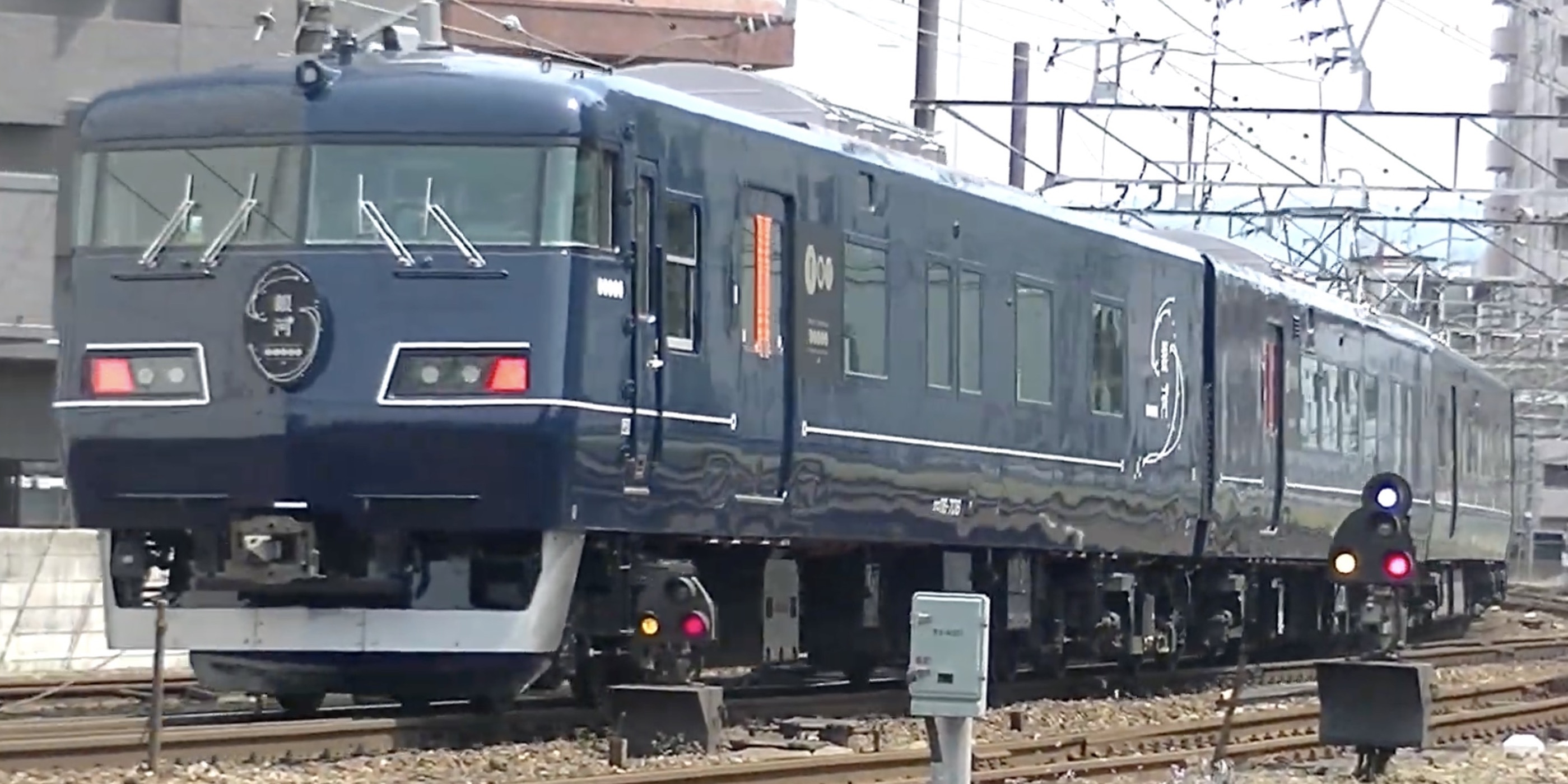 Luxury train West Express Ginga conducting staff training at Hiroshima Station, April 16, 2020.